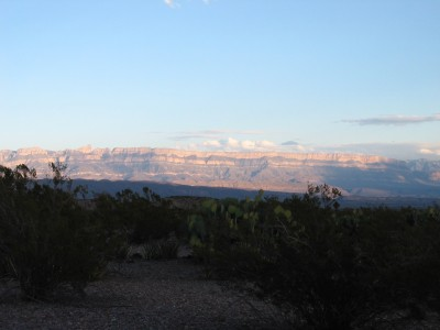 The Sierra del Carmen in Mexico viewed from Big Bend National Park, Texas.